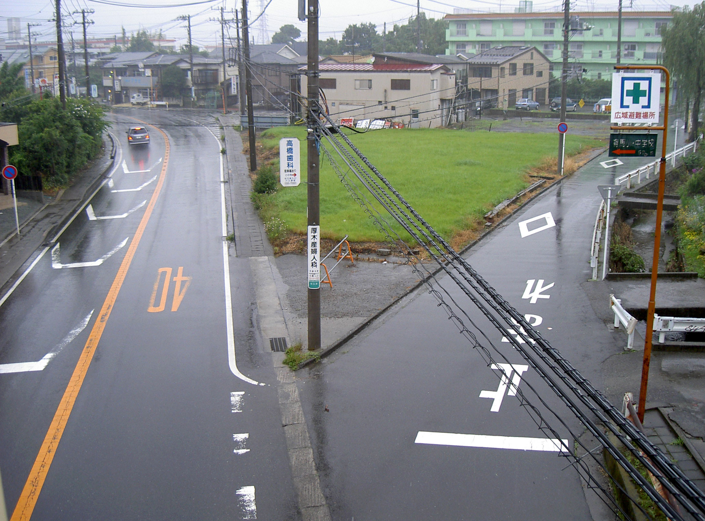 The junctuon of Kanagawa prefectural road route 43 and route 407 ja: 神奈川県道43号藤沢厚木線と神奈川県道407号杉久保座間線の分岐点